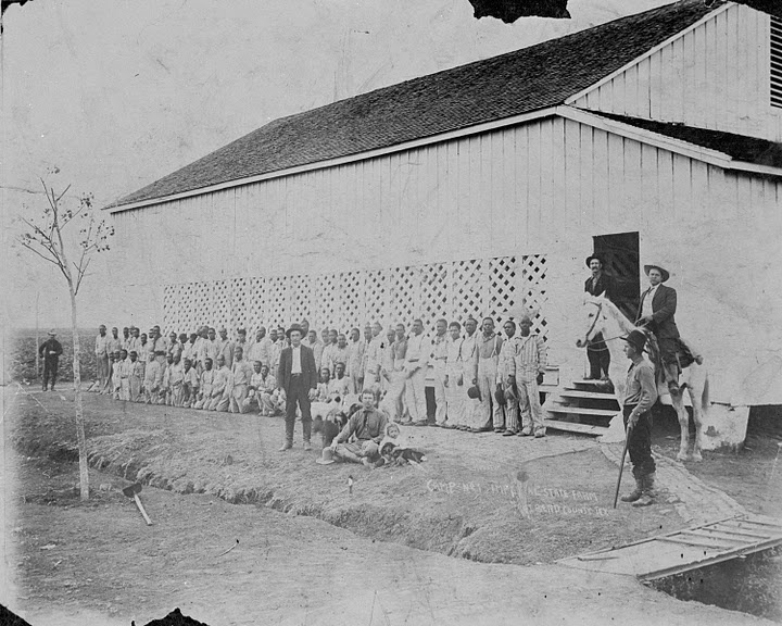 Captain Veale, Imperial State Farm (Central Unit), 1908